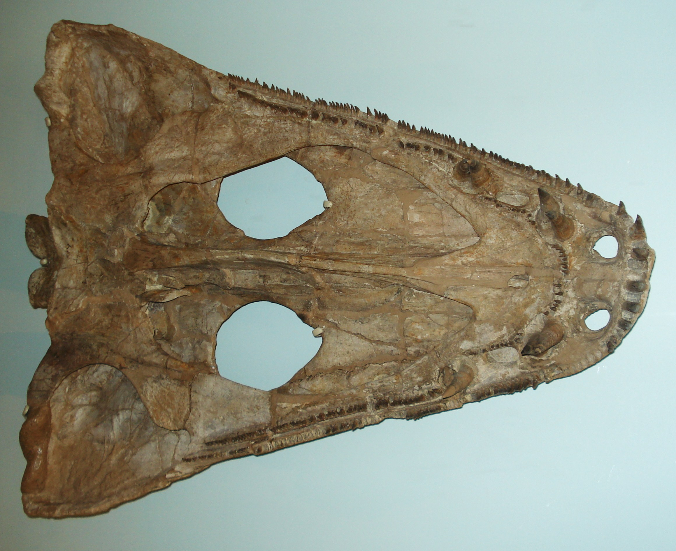 fossil of mastodonsaurus